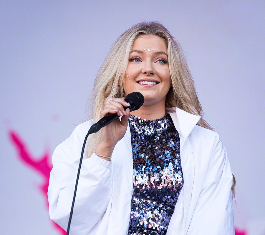 Astrid S at the main stage during Stavernfestivalen in Stavern on 09. July 2016. Lineup:Astrid S (vocal)Unidentified musician (drums)Unidentified musician (keyboard)